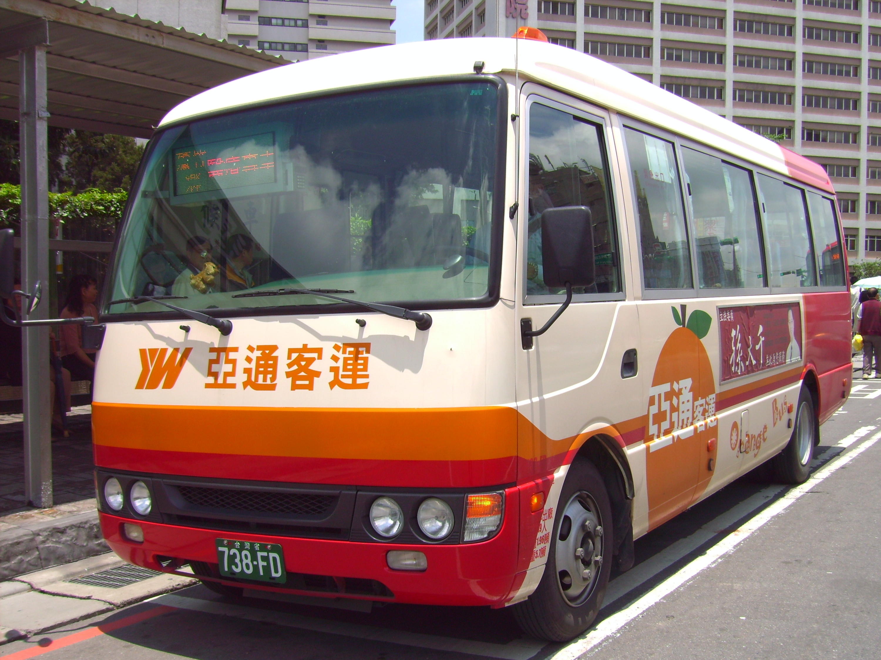 Orange Bus Co., Ltd. operated Lu-zhu Township Free Health-Care Shuttle Bus service by using Fuso Rosa.